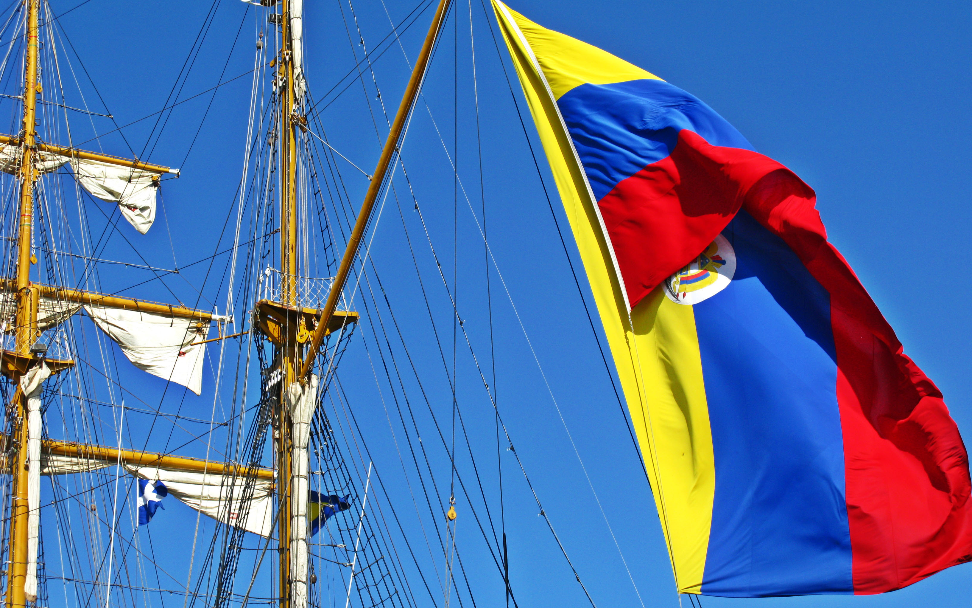 Flag of Colombia. tall ship ARC Gloria